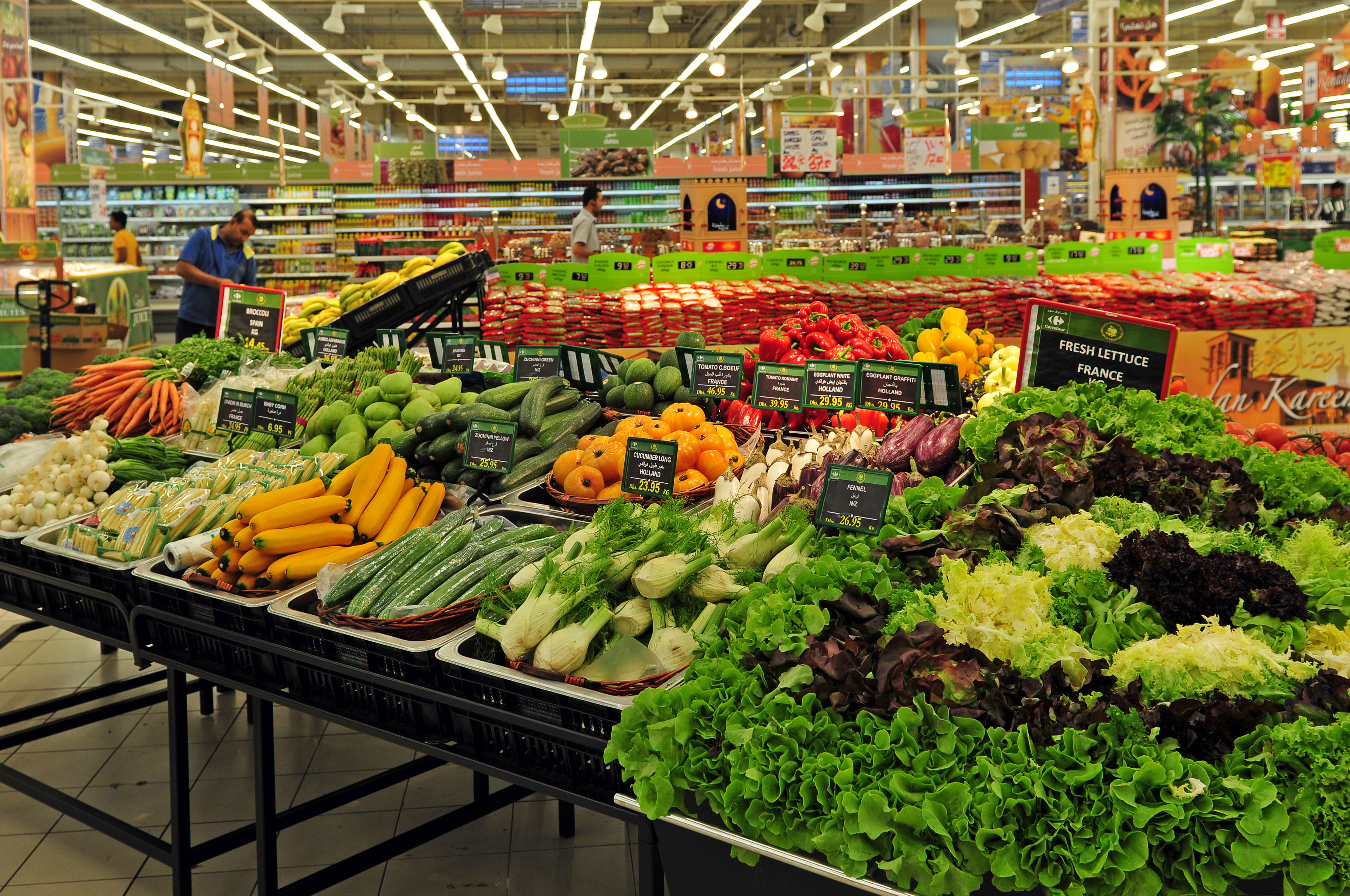 Vegetables in Abu Dhabi Marina Mall Shopping Center